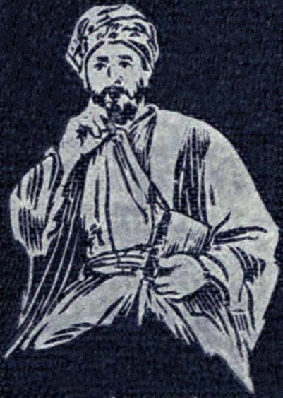 Cover illustratoin of The Confessions of Al-Ghazali (1909)